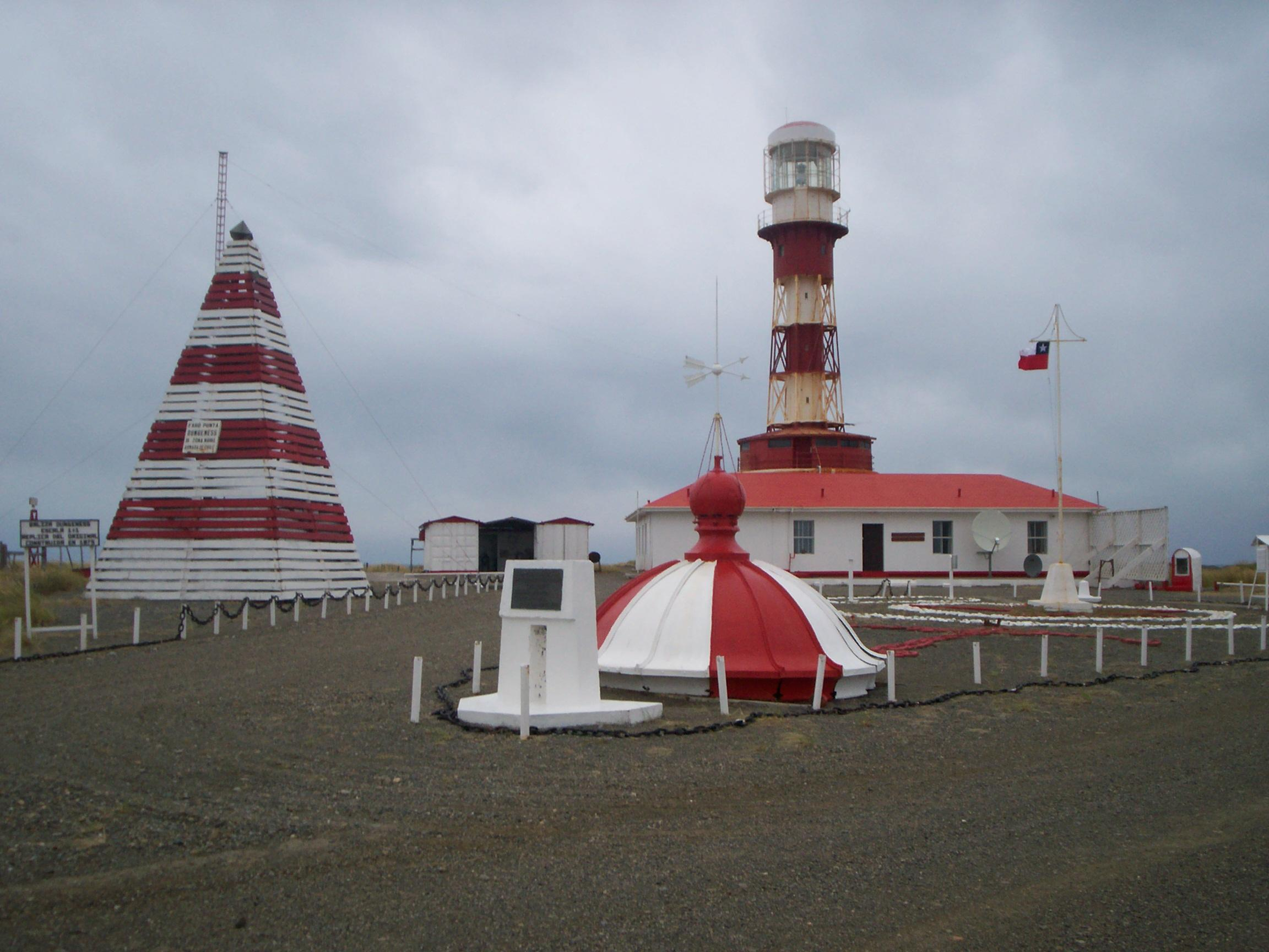 Punta Dungeness Lighthouse, Strait of Magellan, Chile.